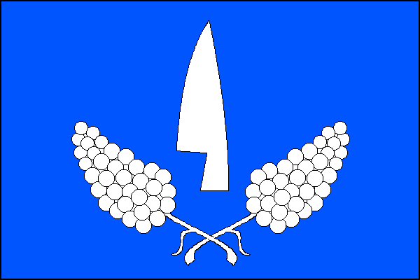 Municipal flag of Klentnice village, Břeclav District, Czech Republic.